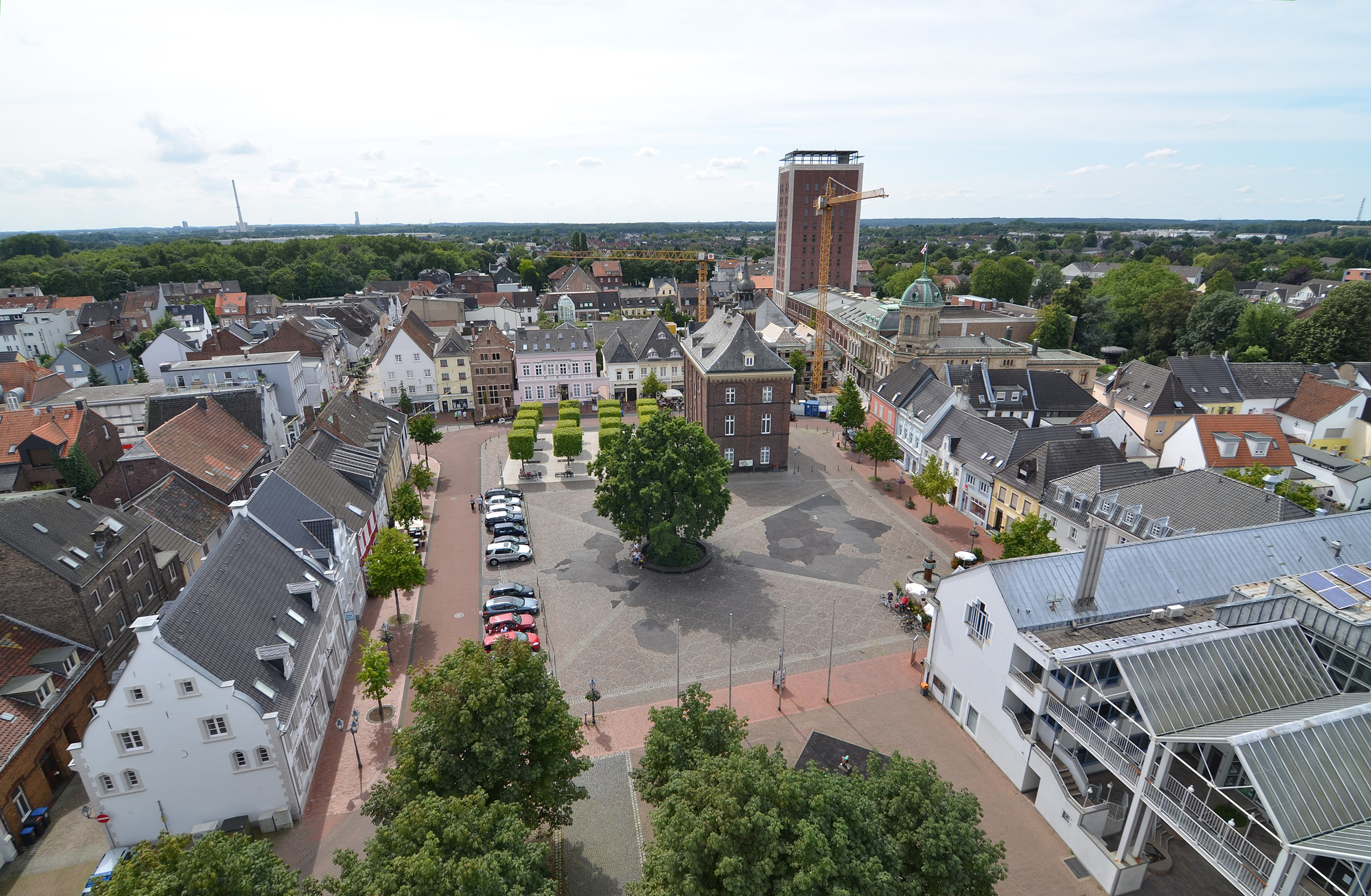 Rheinberg (North Rhine-Westphalia, Germany) – historic city center at the market square This image shows a heritage building in Germany, located in the North Rhine-Westphalian city Rheinberg (heritage area no. 2)). This photograph was taken with a Nikon D7000